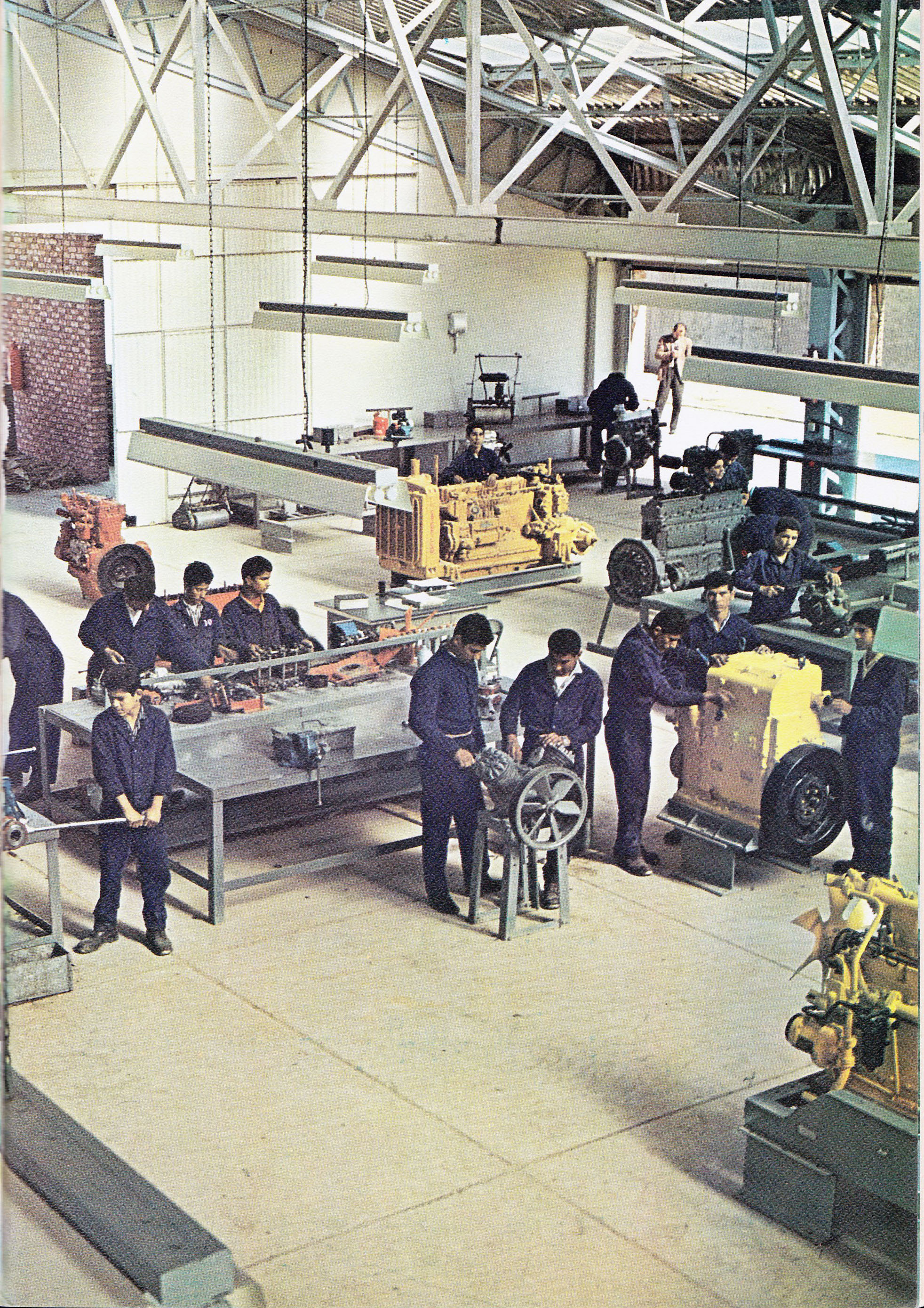 National Iranian Oil Company vocational school in Aghajary.